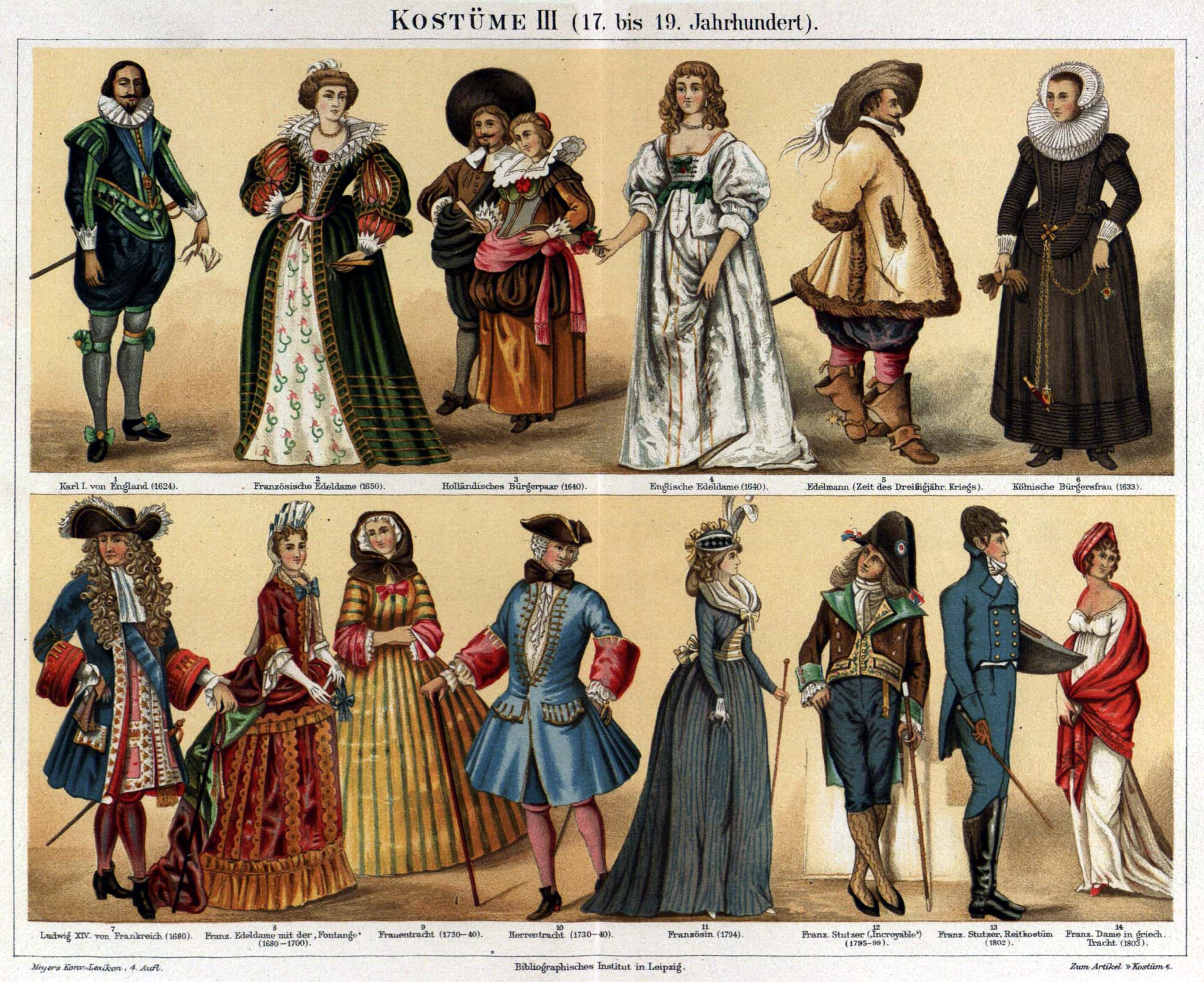 Clothing III (17th to 19th century).